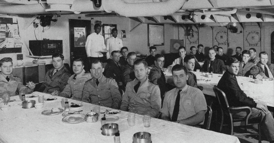 View of the wardroom mess aboard the U.S. Navy light cruiser USS San Juan (CL-54), during World War II.